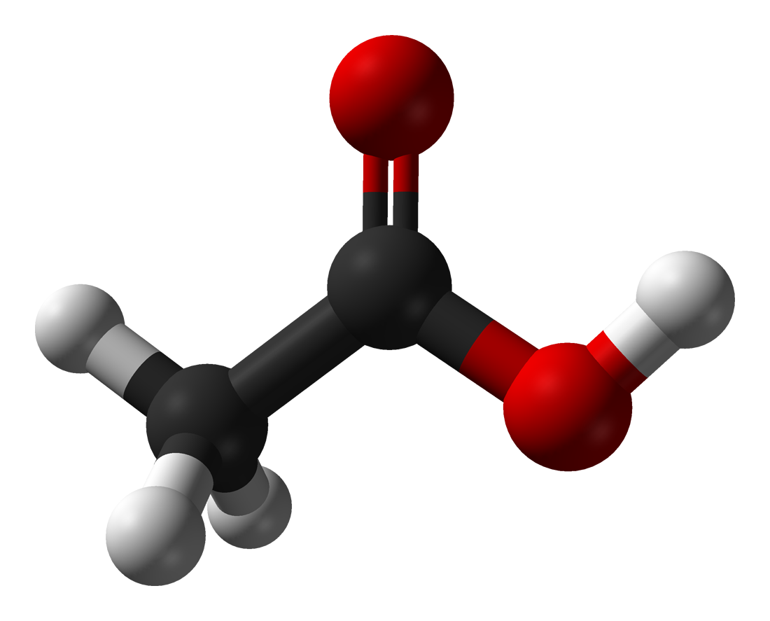 Ball-and-stick model of the acetic acid molecule, C2H4O2. Structural information (determined by gas-phase electron diffraction) from CRC Handbook, 88th edition. Image generated in Accelrys DS Visualizer.